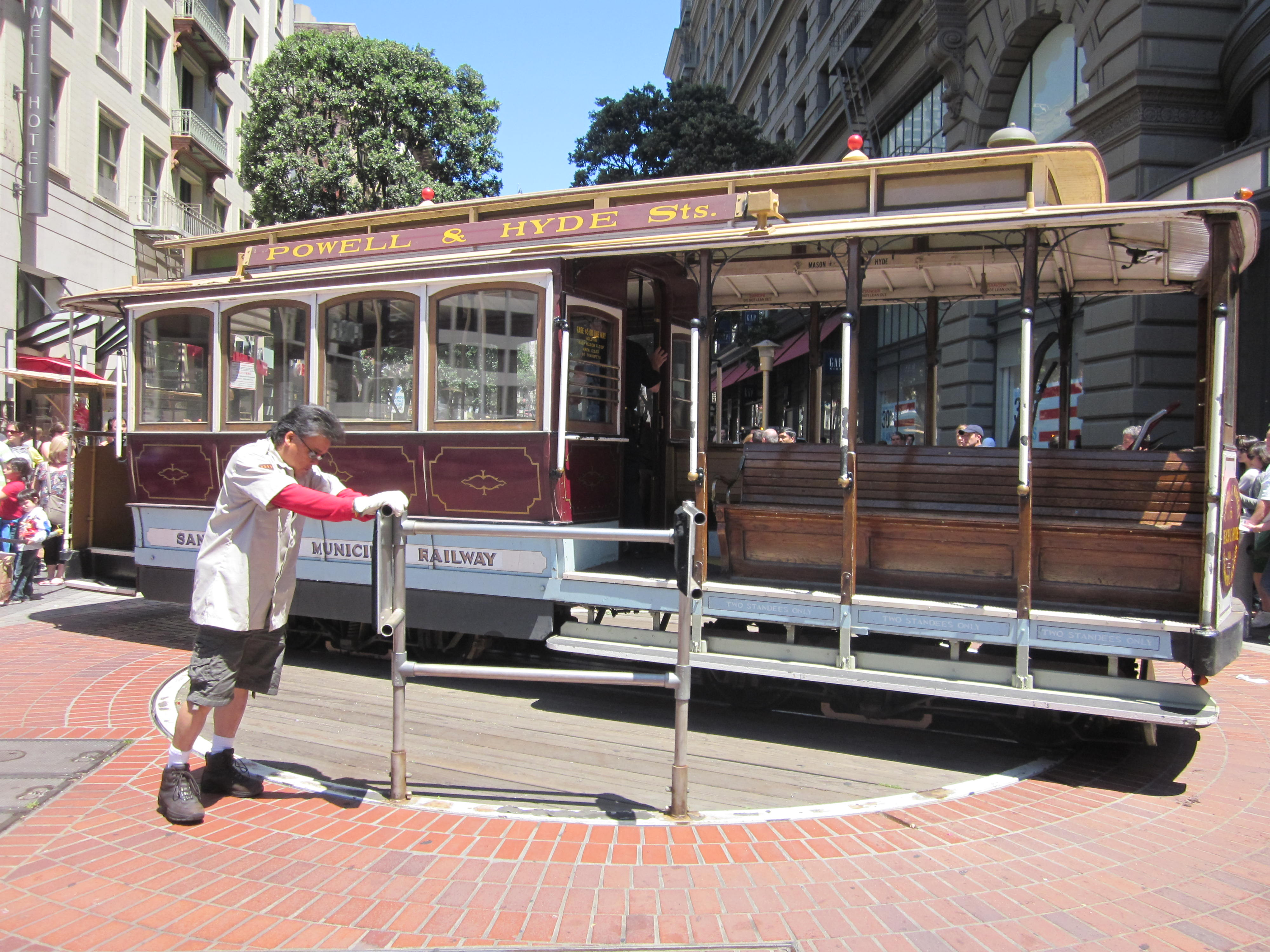 San Francisco cable car no. 1 being turned at the Powell and Market street turntable.